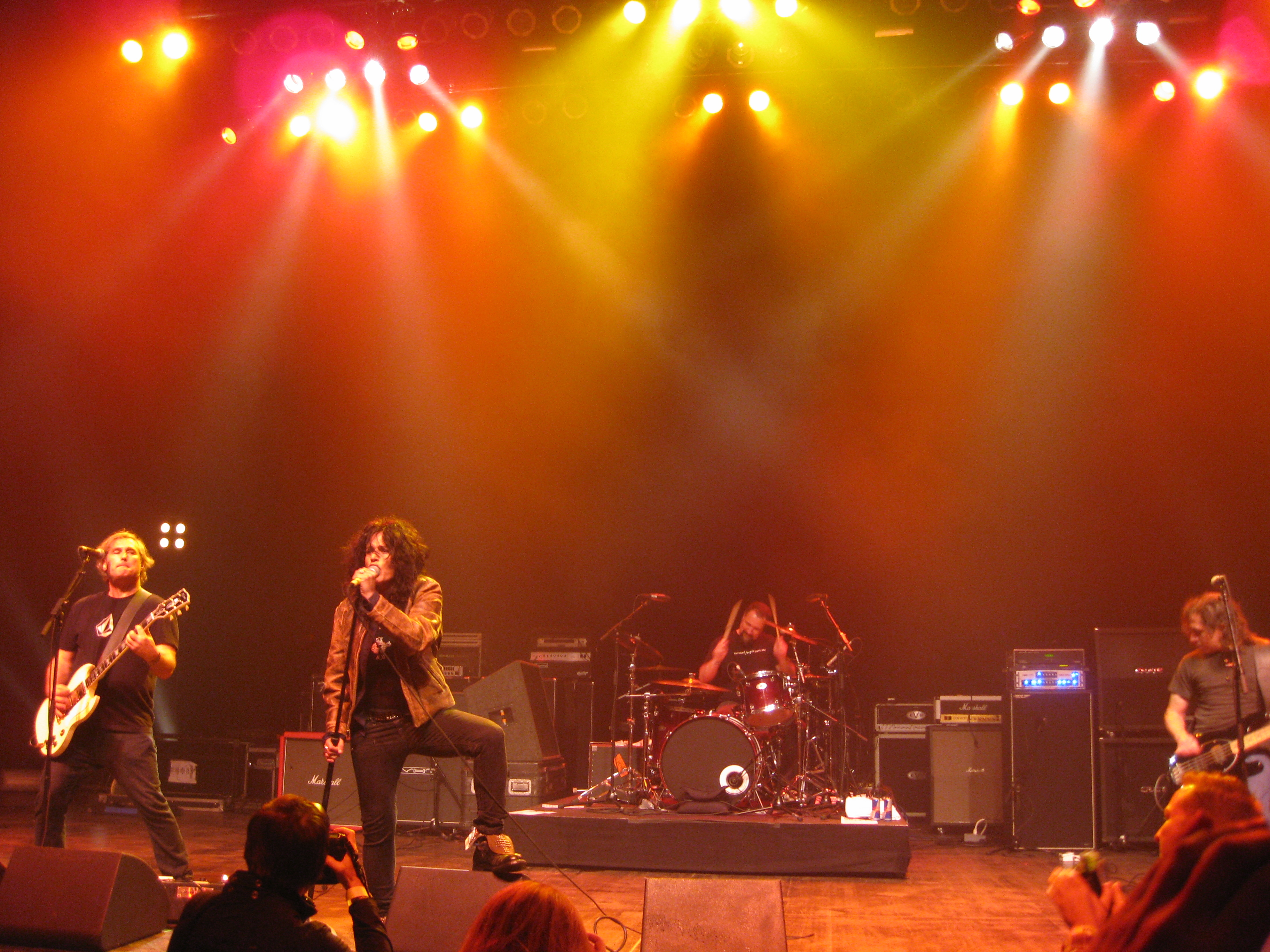 Sin 34 performing December 17, 2011 at the Santa Monica Civic Auditorium in Santa Monica, California as part of the GV30 event. Left to right: guitarist Mike Glass, singer Julie Lanfeld, drummer Dave Markey, and bassist Phil Newman.